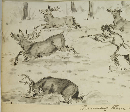 Sketches of Hudson Bay Life: "Running them down"